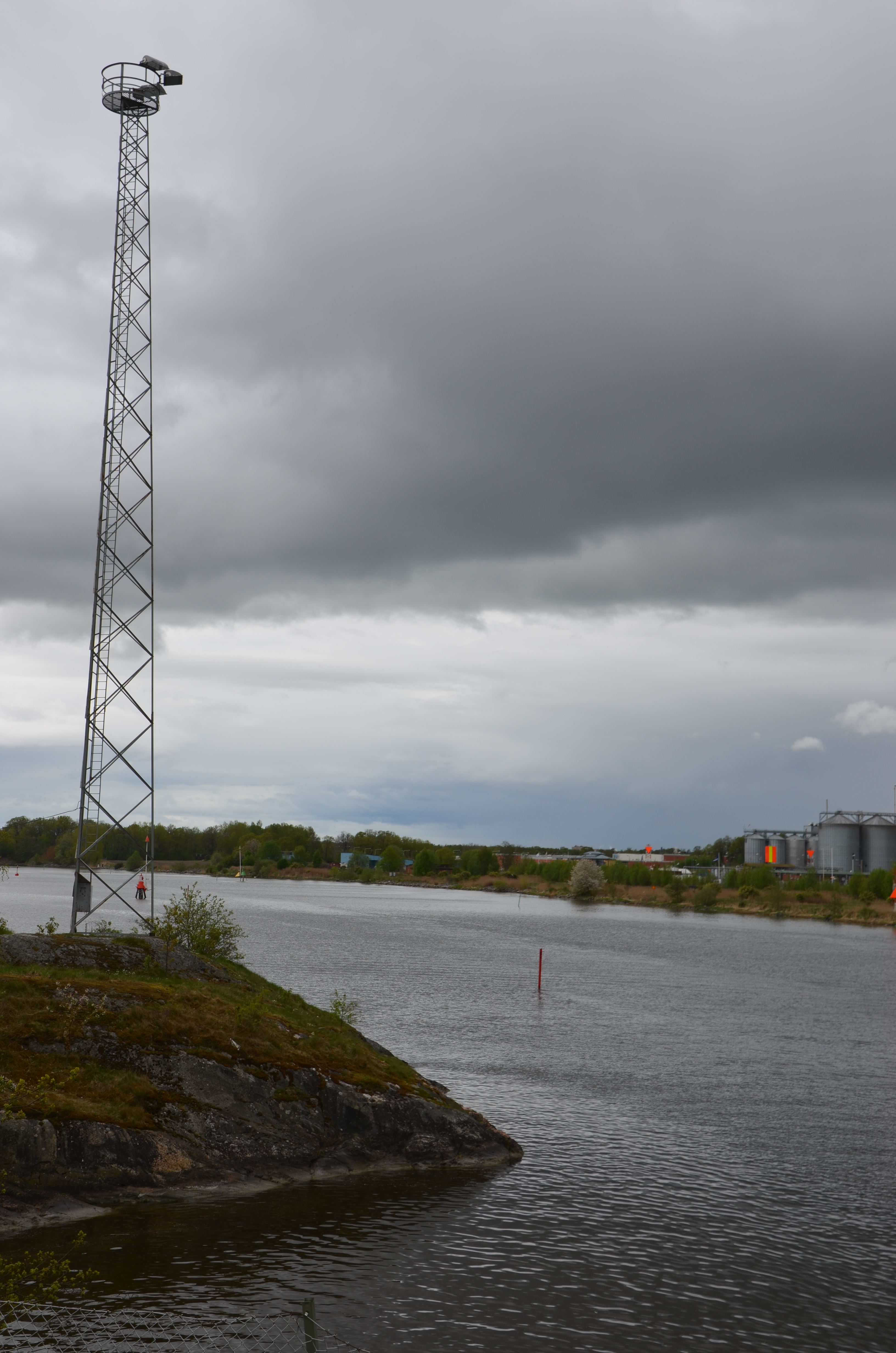 Lindö channel in Norrköping. Photo taken from Pampusvägen towards west.